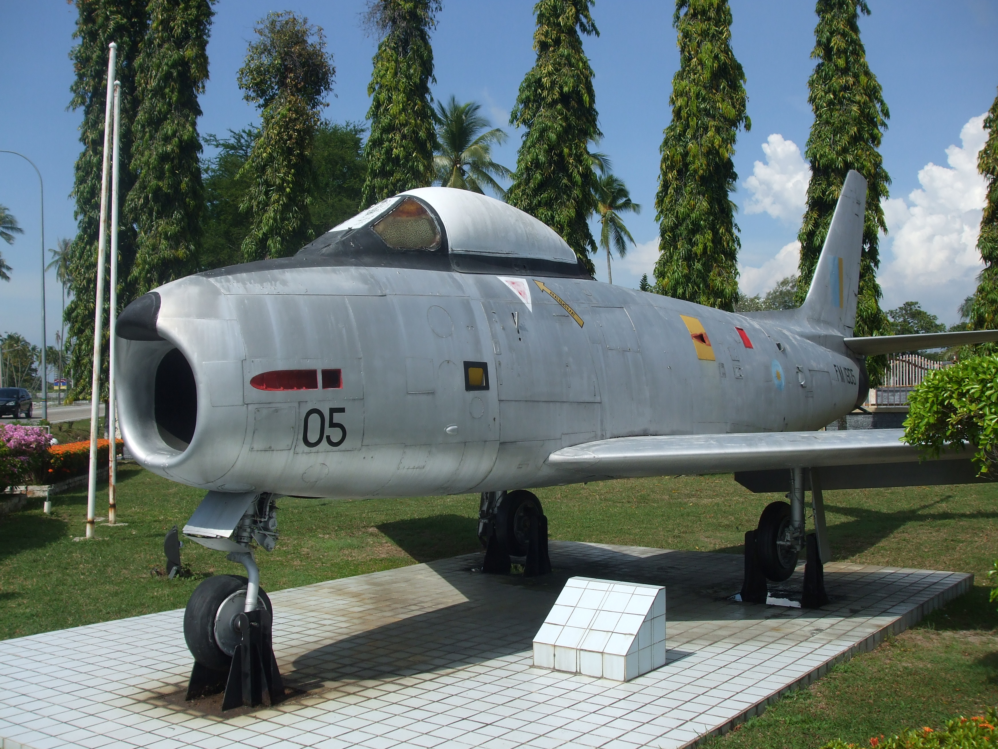 Gate Guardian at RMAF Base Butterworth. The Australian manufactured Sabres were the first fighters of the RMAF, based at Butterworth.